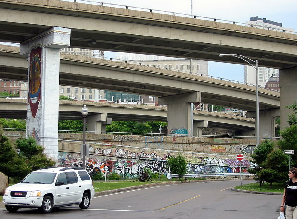 Just downhill from the magical walled city, the rest of North America intrudes. End of Autoroute 440, Québec. (My primary computer's in the shop, so here's something from last year.)